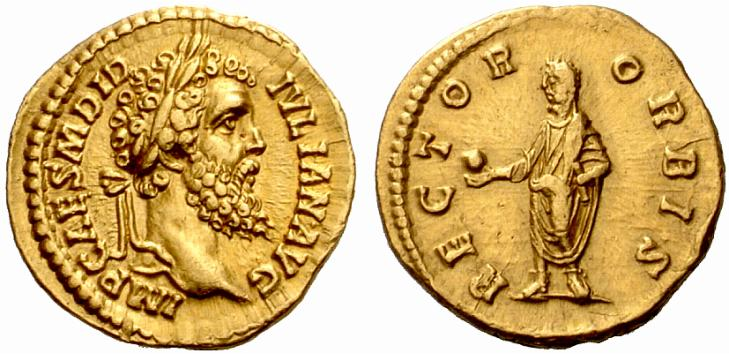 Didius Julianus, 193, Aureus, Rome, AV 7.25 g. IMP CAES M DID – IVLIAN AVG Laureate head r. Rev. RECTOR – ORBIS Julianus standing l., holding globe and roll. RIC 3a. BMC 7 note. C 14. A.M. Woodward, The Coinage of Didius Julianus and his Family, NC 1961, 3 and pl. 6, 8 (these dies). Vagi 1670. Calicó 2398 (this coin). Biaggi 1051 (this coin).